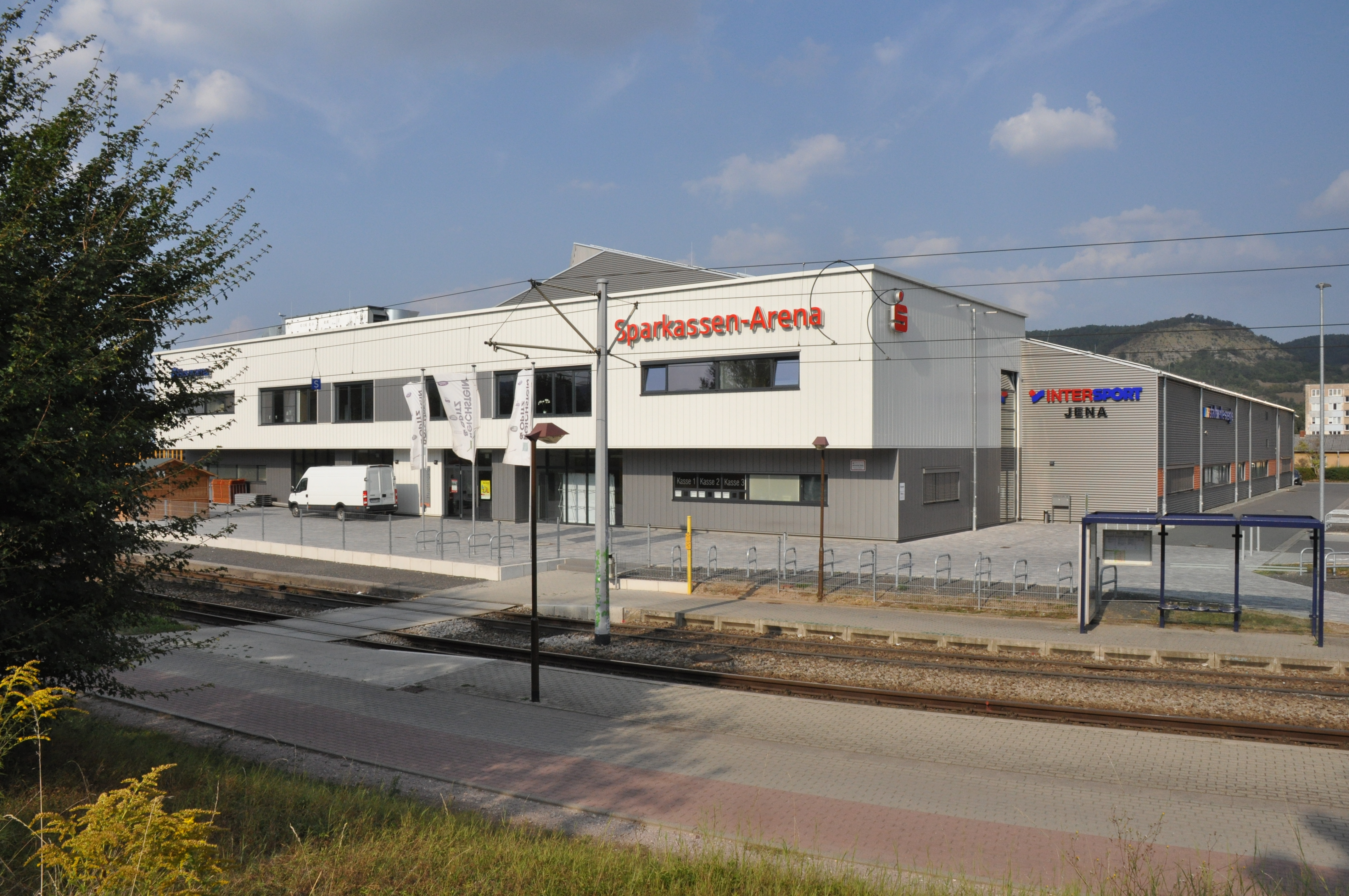 Sparkassenarena, Jena Burgau, entrance west side